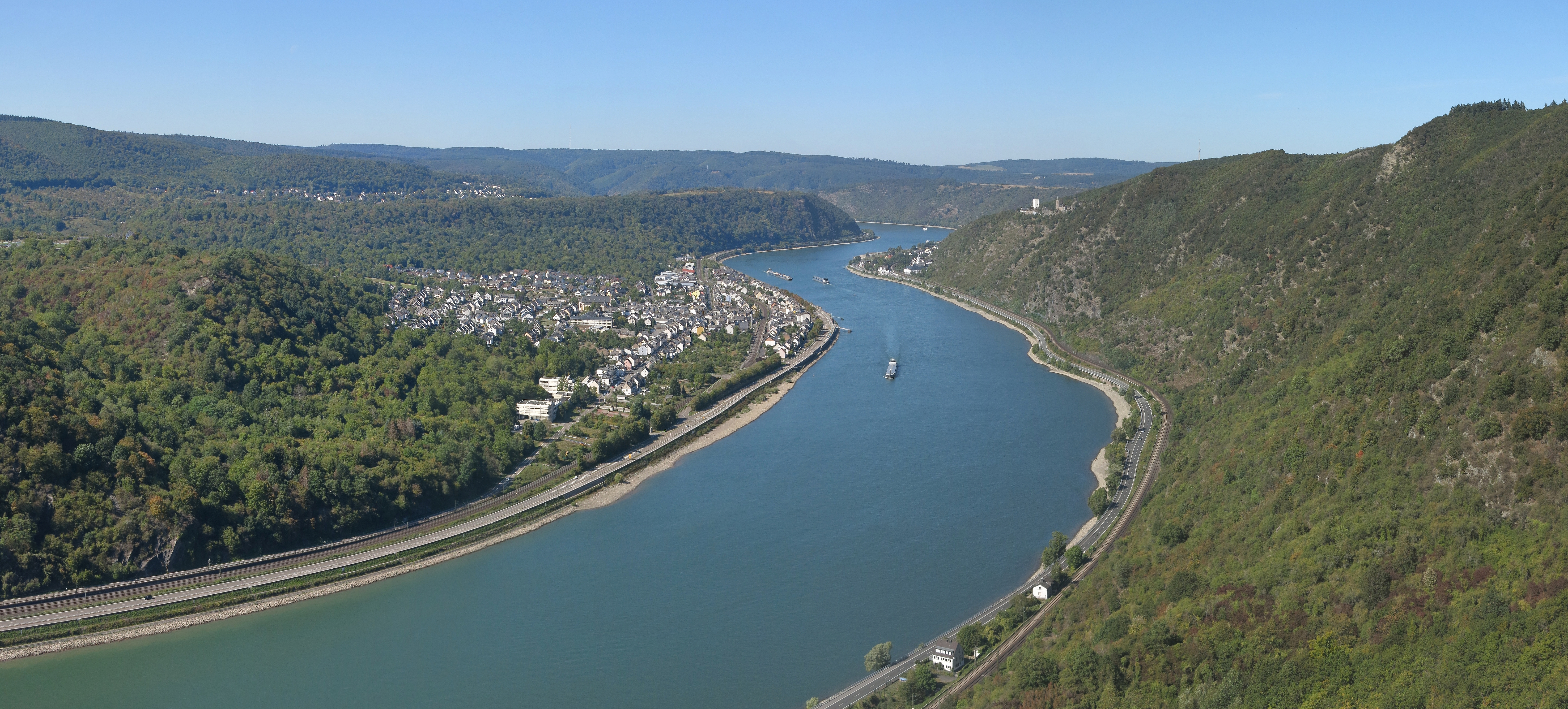 View from the lookout point Hindenburghöhe into Rhine Gorge